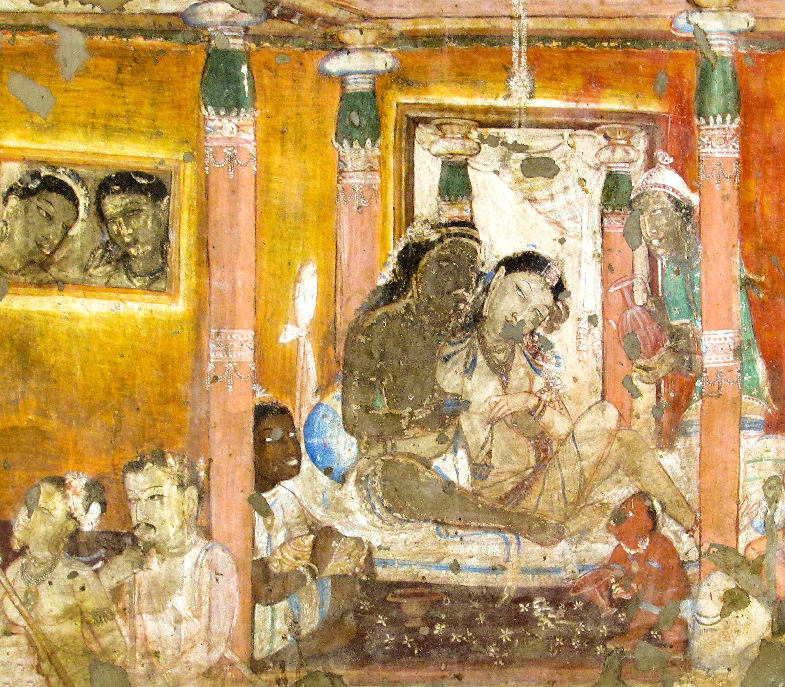 Ajanta amorous palace scene. Cave 17.